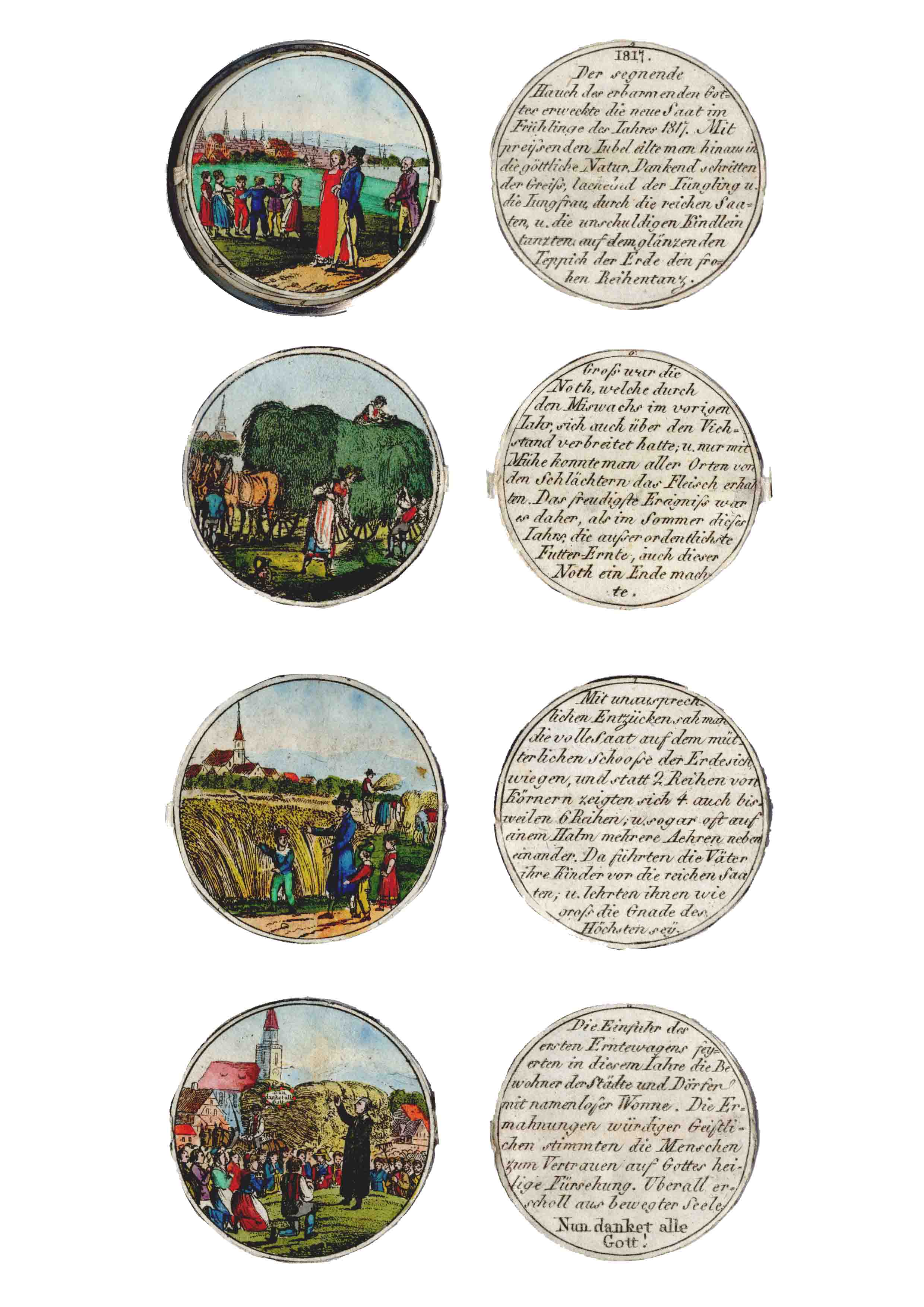 Etchings inside the medal on the famine and dearness 1816 and 1817, design of the medal by Johann Thomas Stettner (1785-1872), etchings Georg Adam (1784-1823)